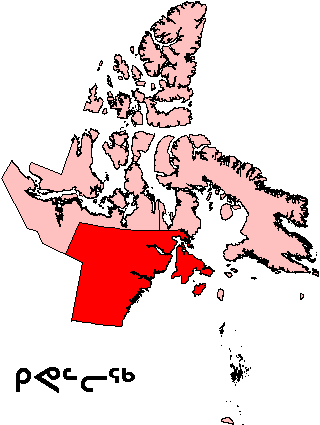 Map of Kivalliq Region in Nunavut, Canada